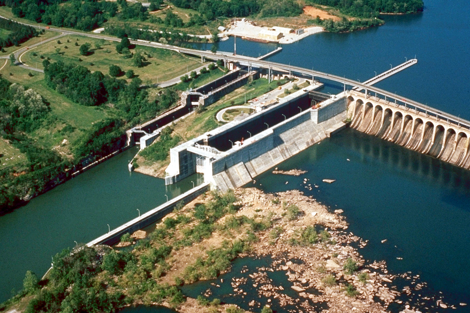 Wilson Lock and Dam, impounding Wilson Lake on the Tennessee River at Florence, Alabama, USA. The dam is named after U.S. President Woodrow Wilson. The dam was constructed beginning in 1918 and completed in 1925.